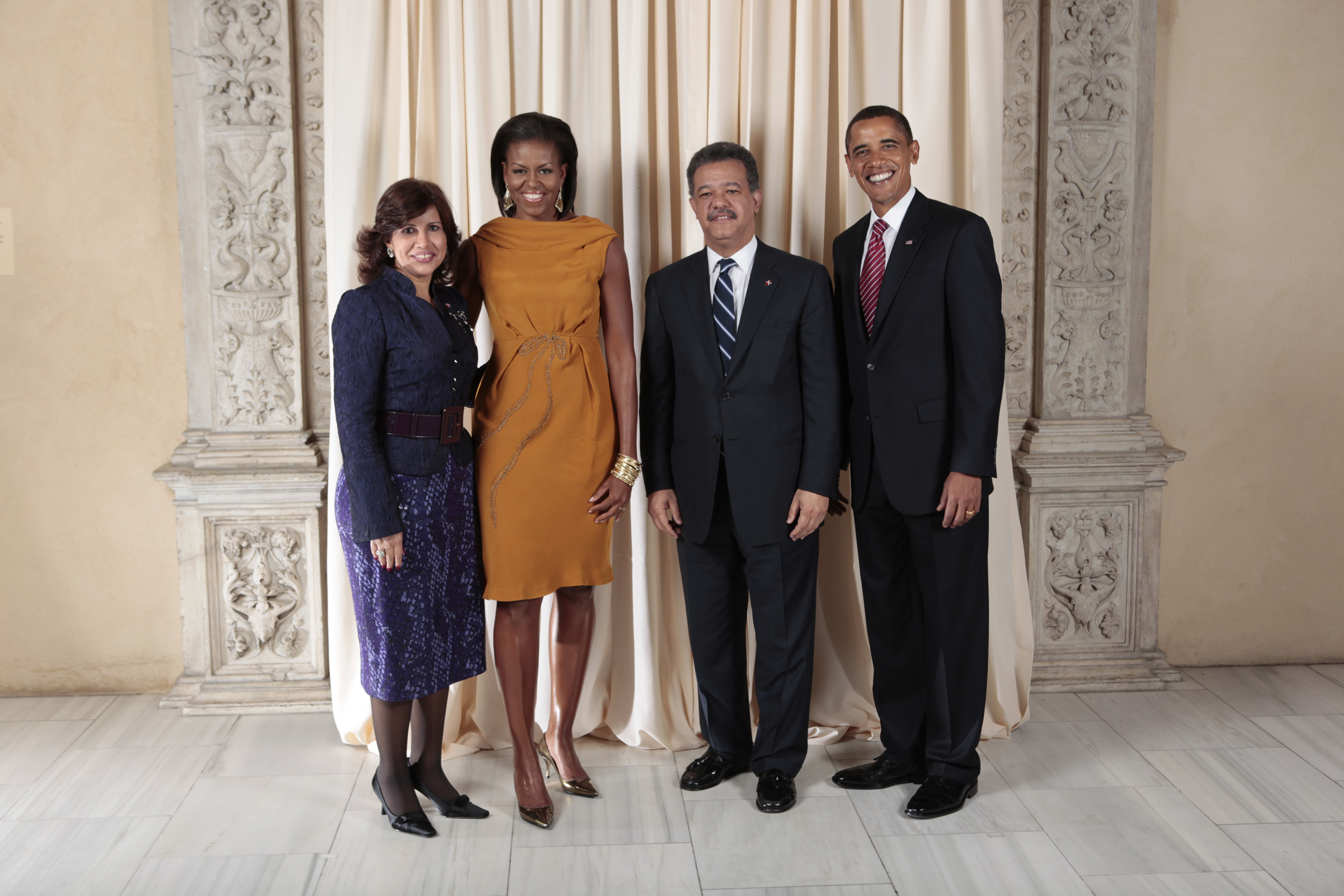 President Barack Obama and First Lady Michelle Obama pose for a photo during a reception at the Metropolitan Museum in New York with Leonel Fernandez Reyna, President of the Dominican Republic, and H.E. First Lady Margarita de Fernandez.